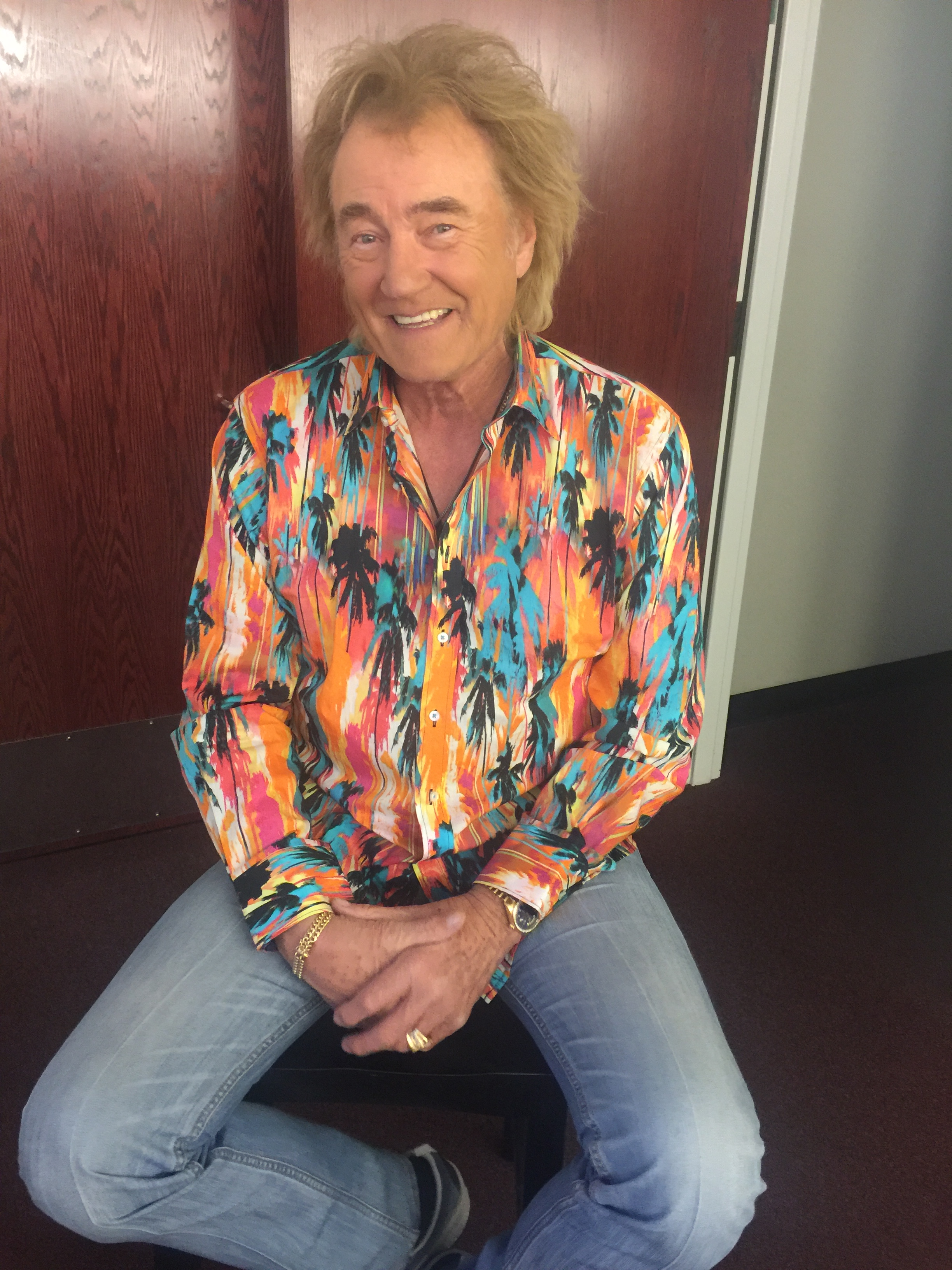 American musician Eddy Raven